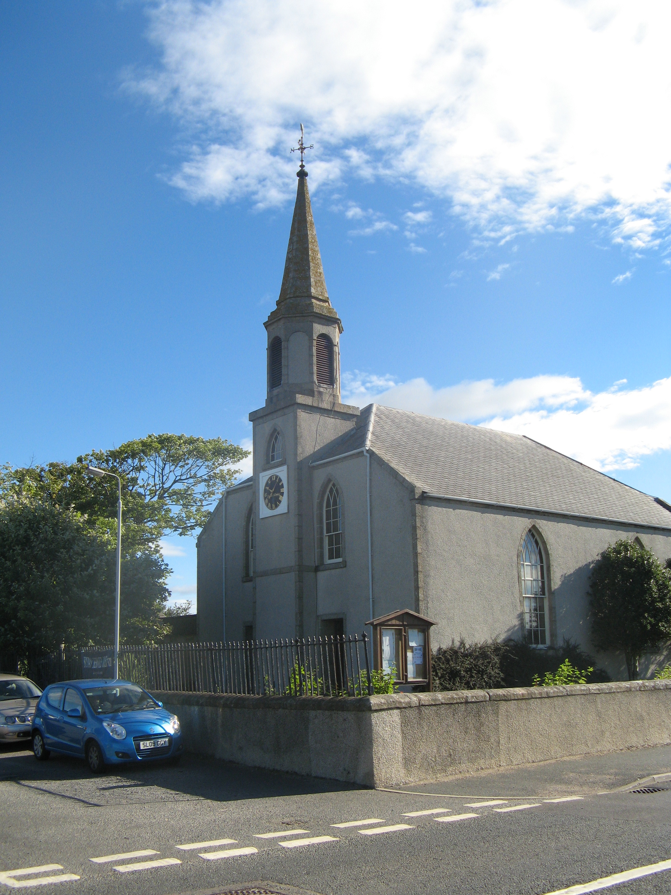 Parish Church of Crimond, category A listed building, side view